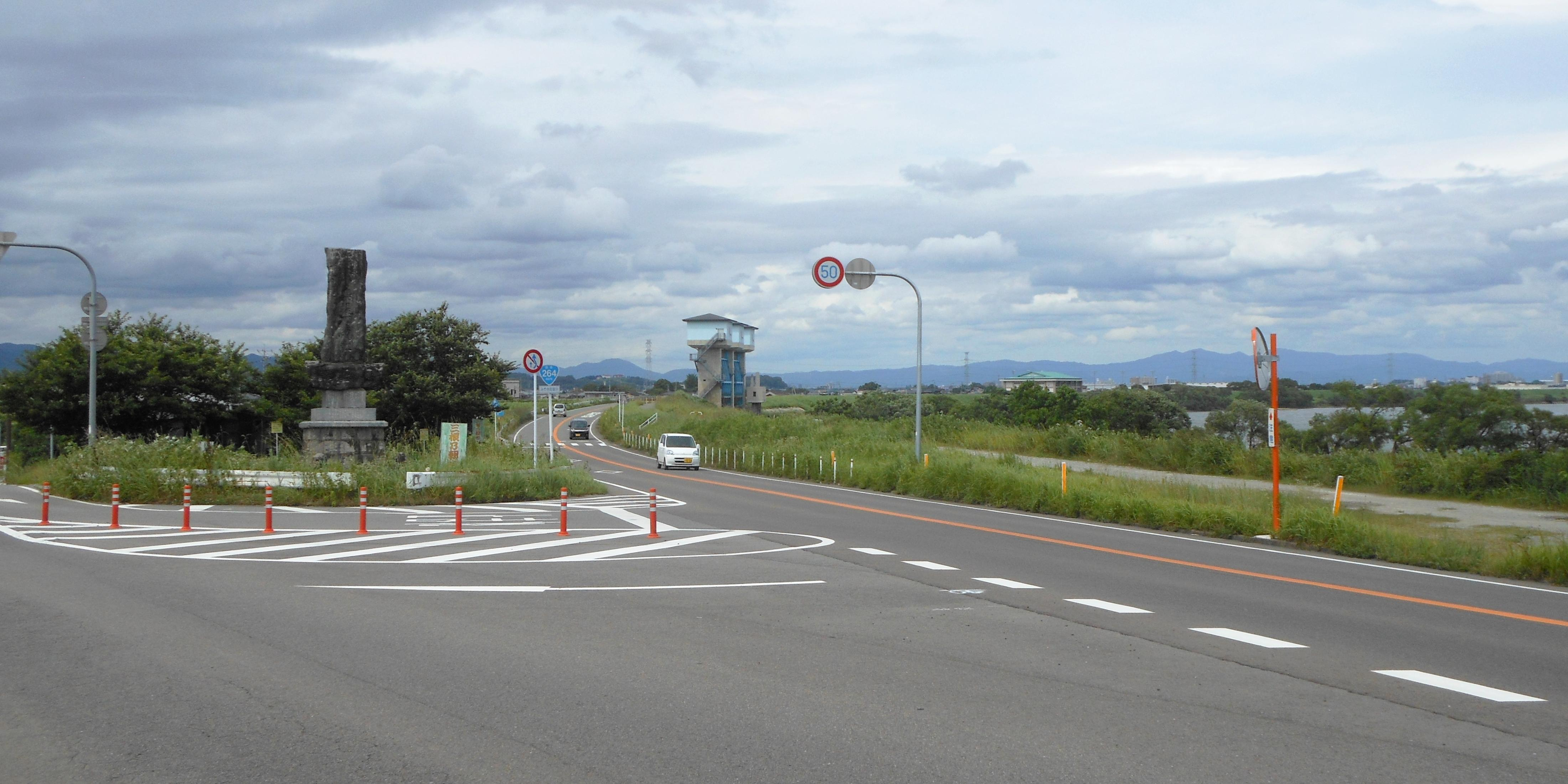 A monument for modern flood control engineer Naridomi Shigeyasu and present-day bank of Chikugo River, in Higashibun, Miyaki town, Saga prefecture. A road at center is Japan National Route 264.